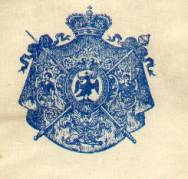 Mavrogenis house coat of arms